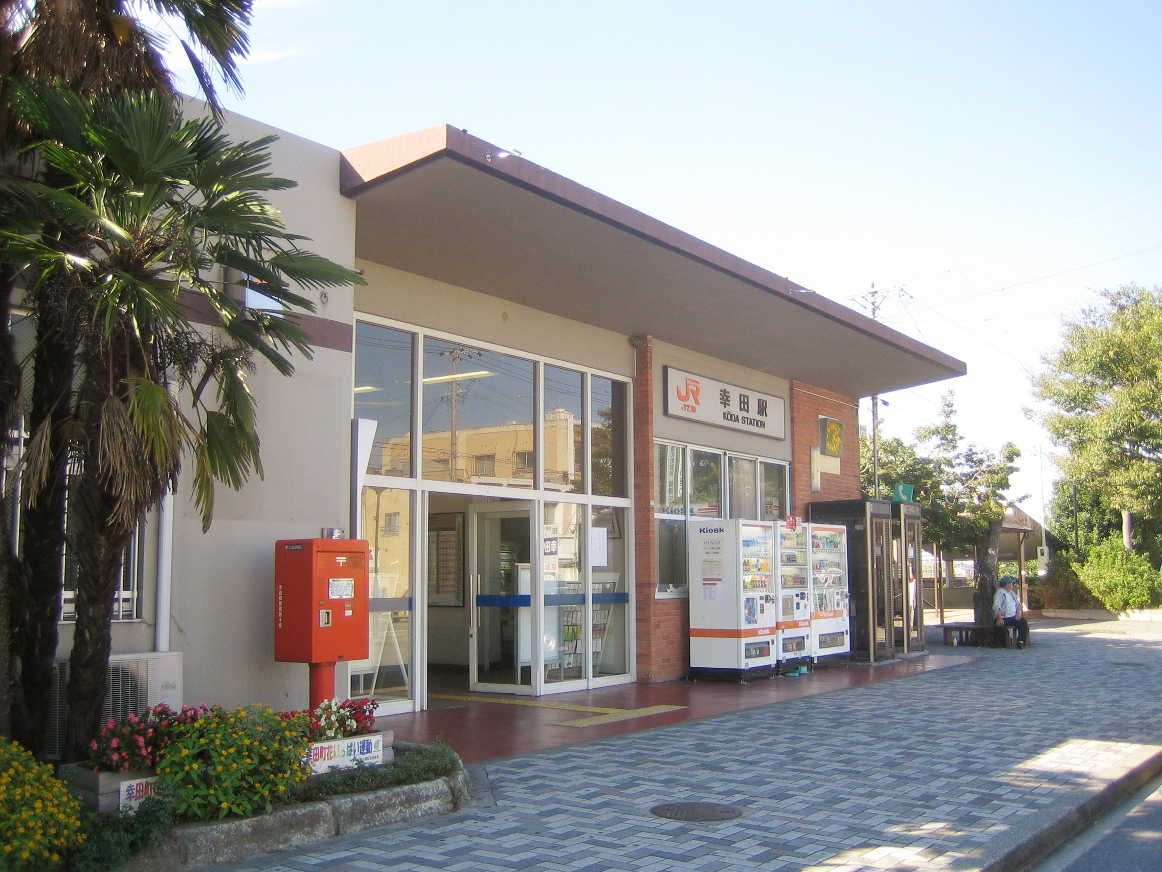 Koda Station on the Tokaido Main Line in Kota, Aichi